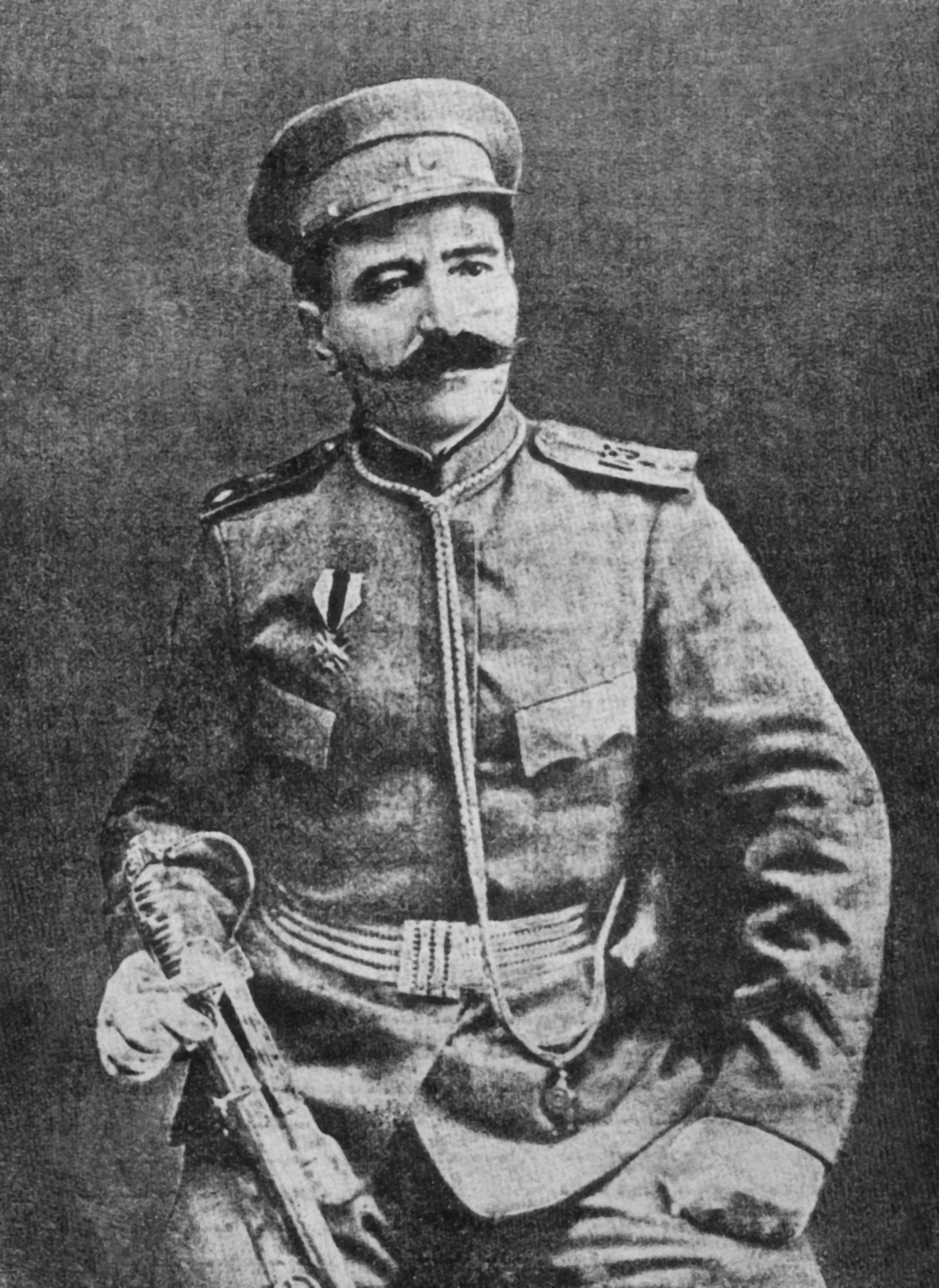 Zoravar Andranik in Sophia 1912 (Balkan Wars)